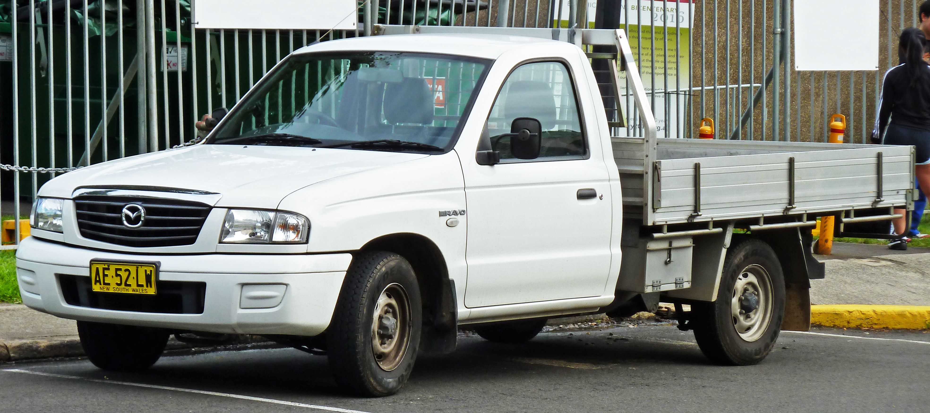 2005 Mazda Bravo (B2500) DX 2-door cab chassis. Photographed in Sydney, New South Wales, Australia.